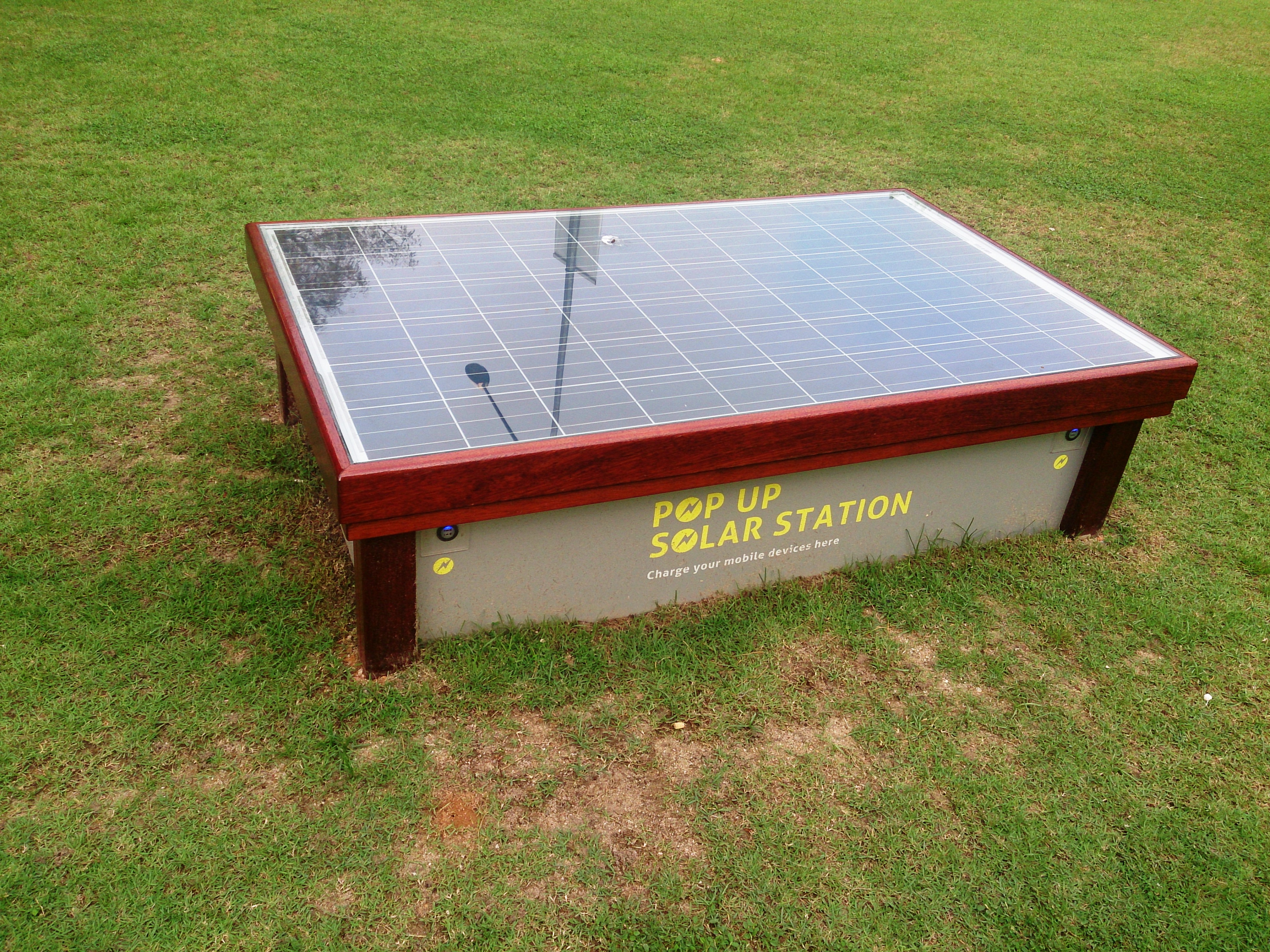 Solar panel out the National Museum of Singapore for recharging mobile phones (Need to bring your own USB cable though...)